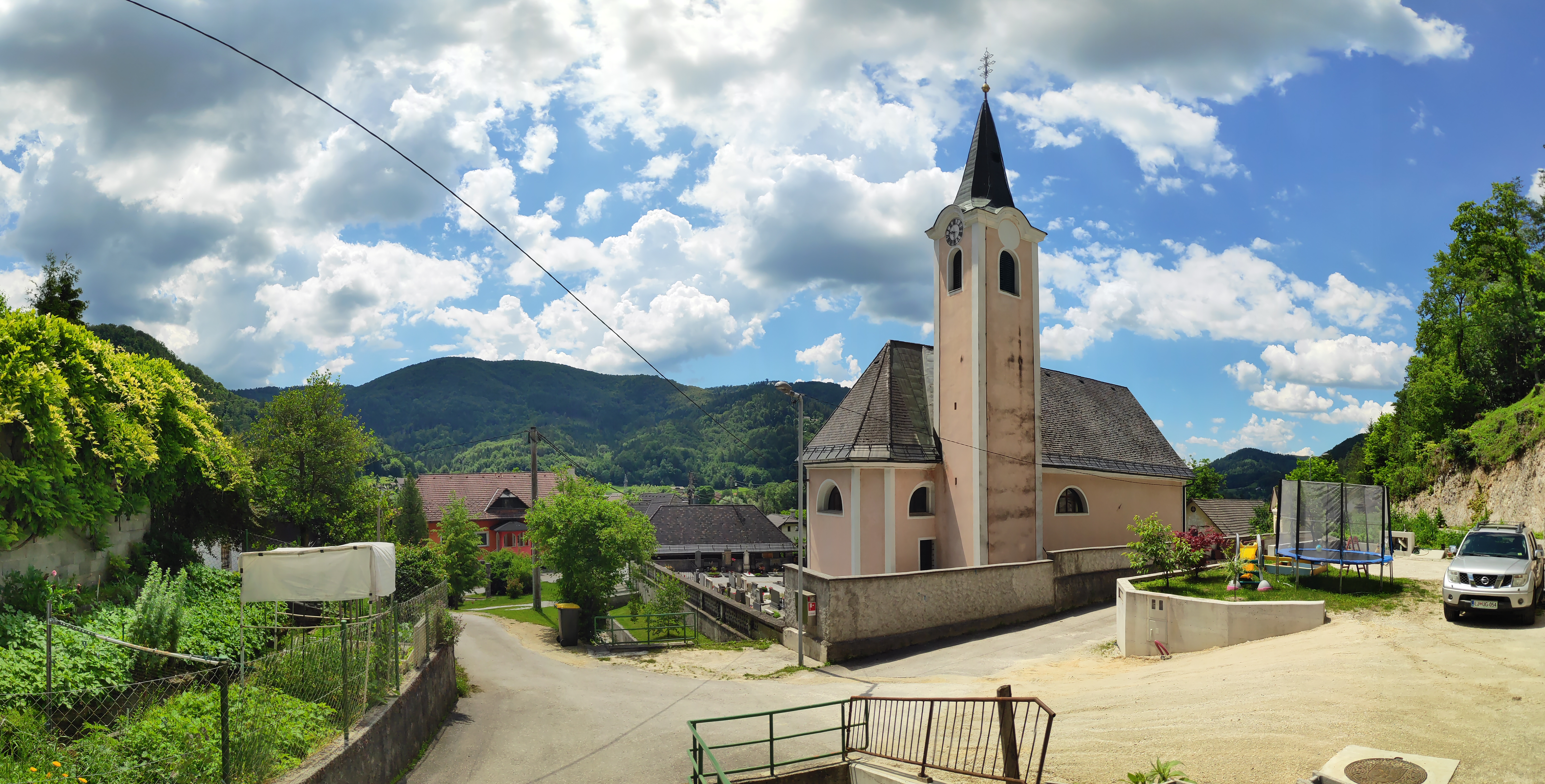 Sava (Občina Litija)